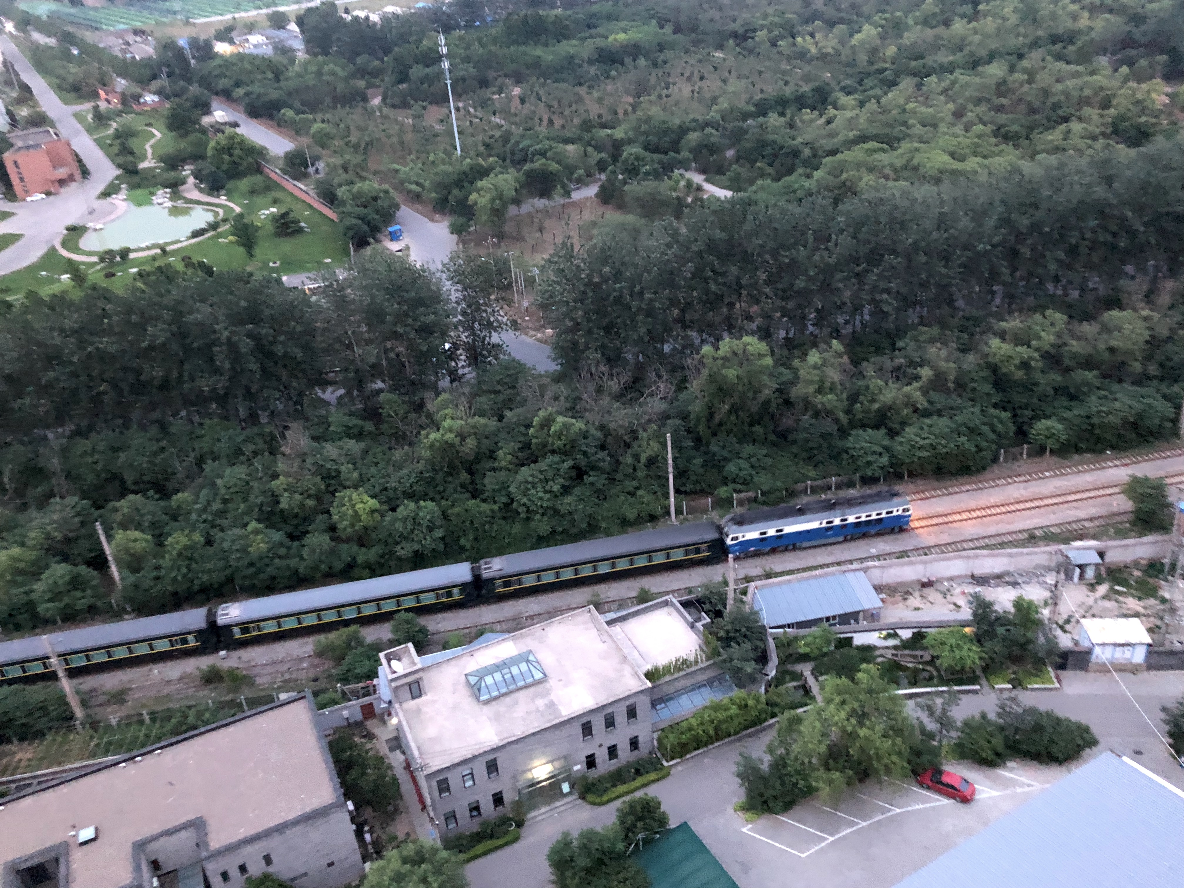 Shuangqiao-Shahe Railway